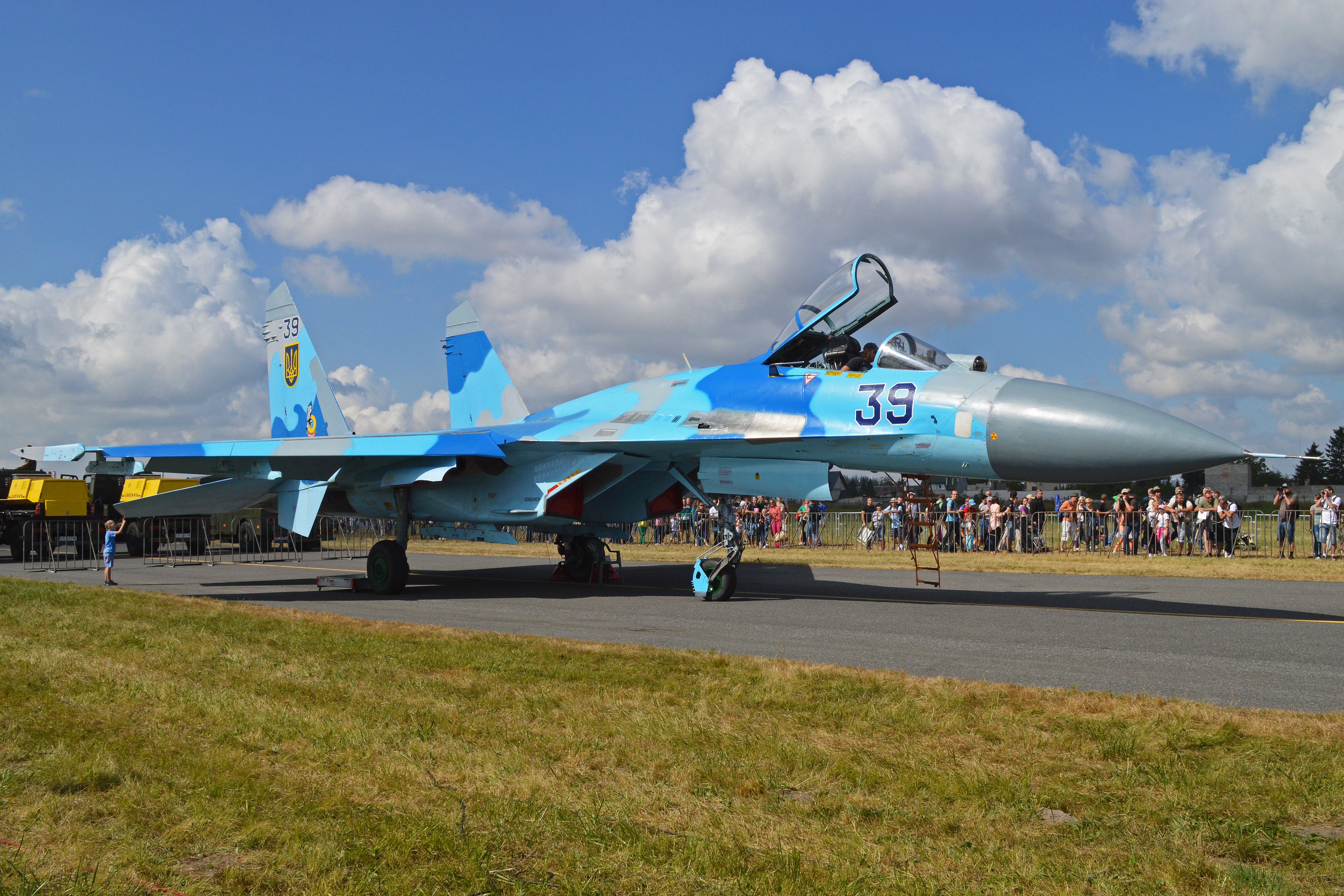 Operated by the Myrhorod based 831st VABR, Ukranian Air Force. c/n 36911035818. On static display at the 2013 Airshow at Radom Airbase, Poland. 24-8-2013